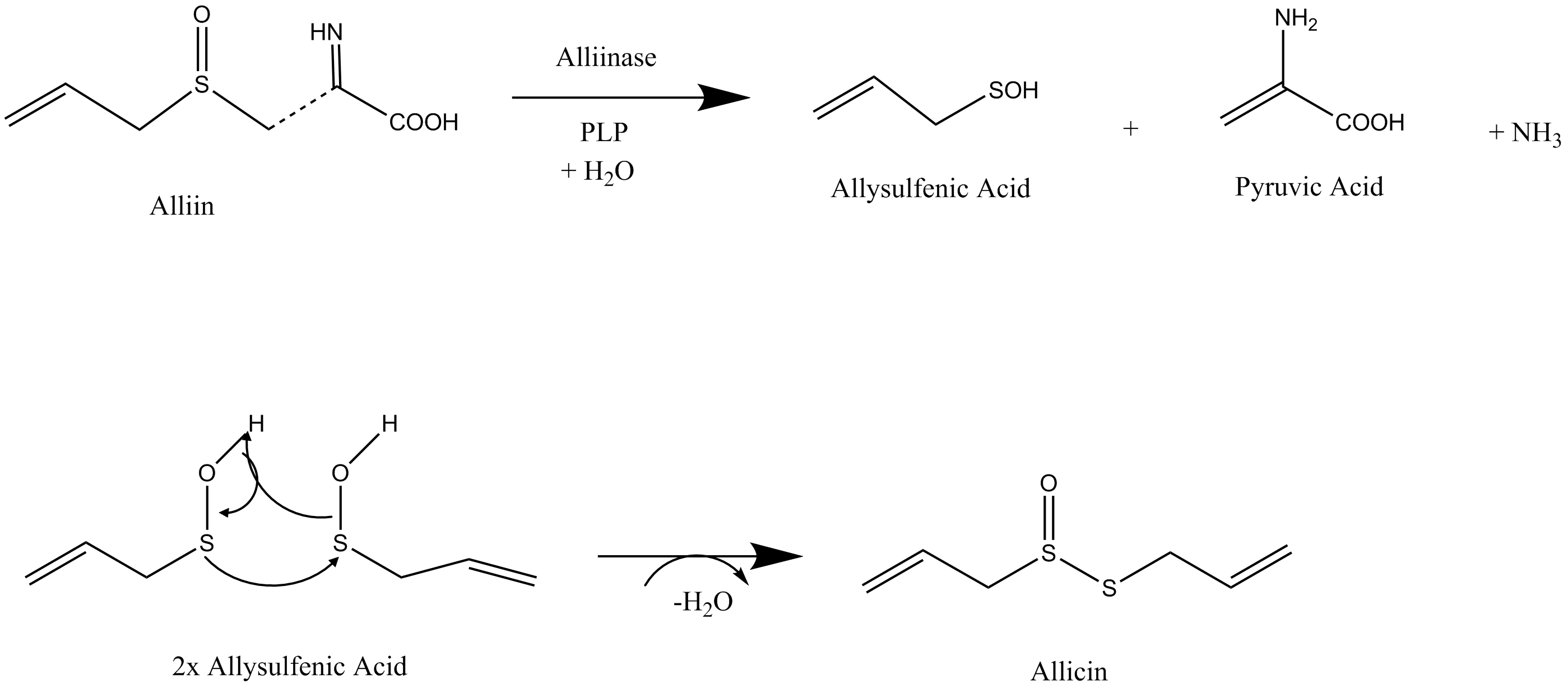 Biosynthesis of Allicin